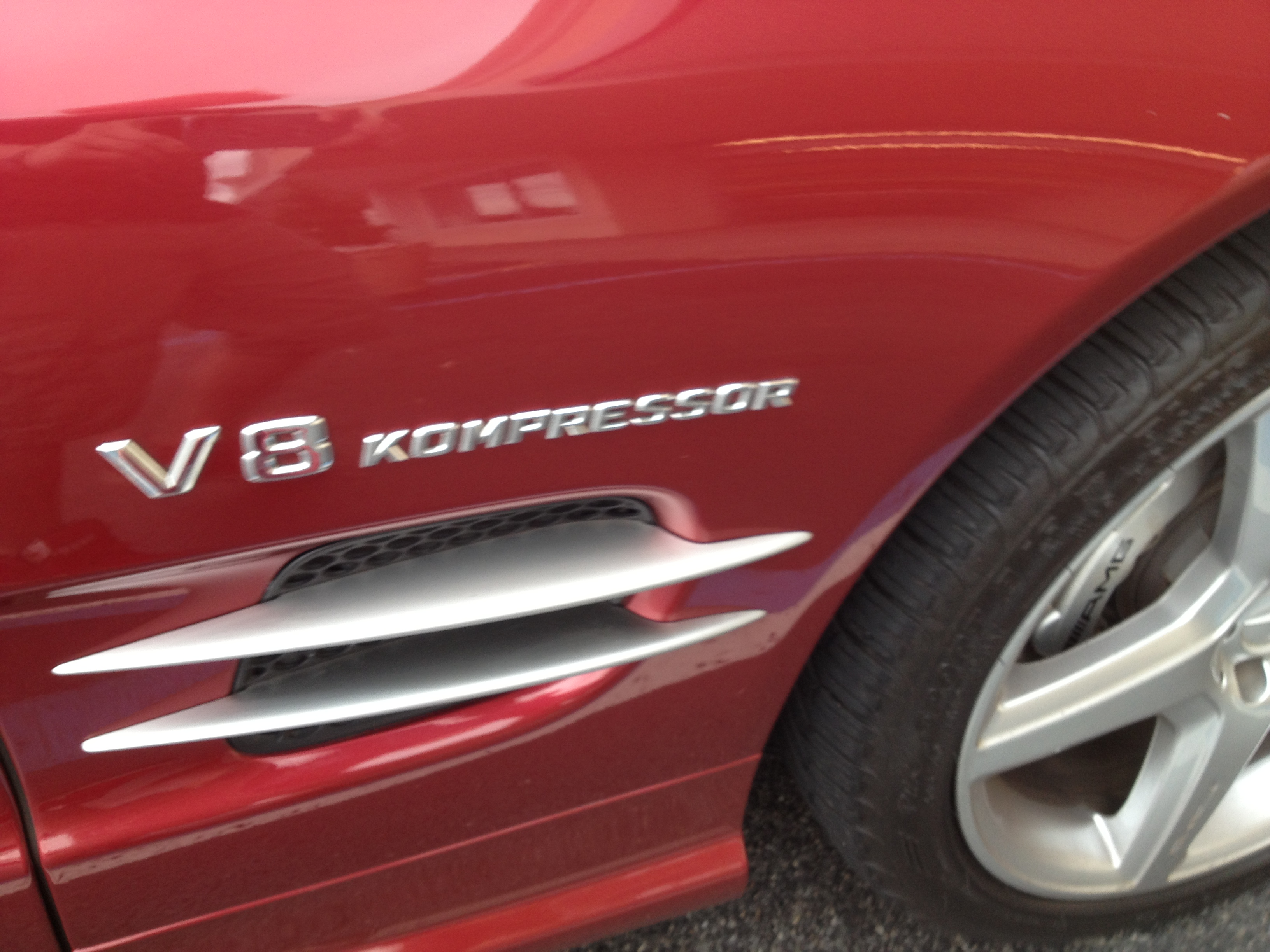 SL55 AMG V8 Kompressor